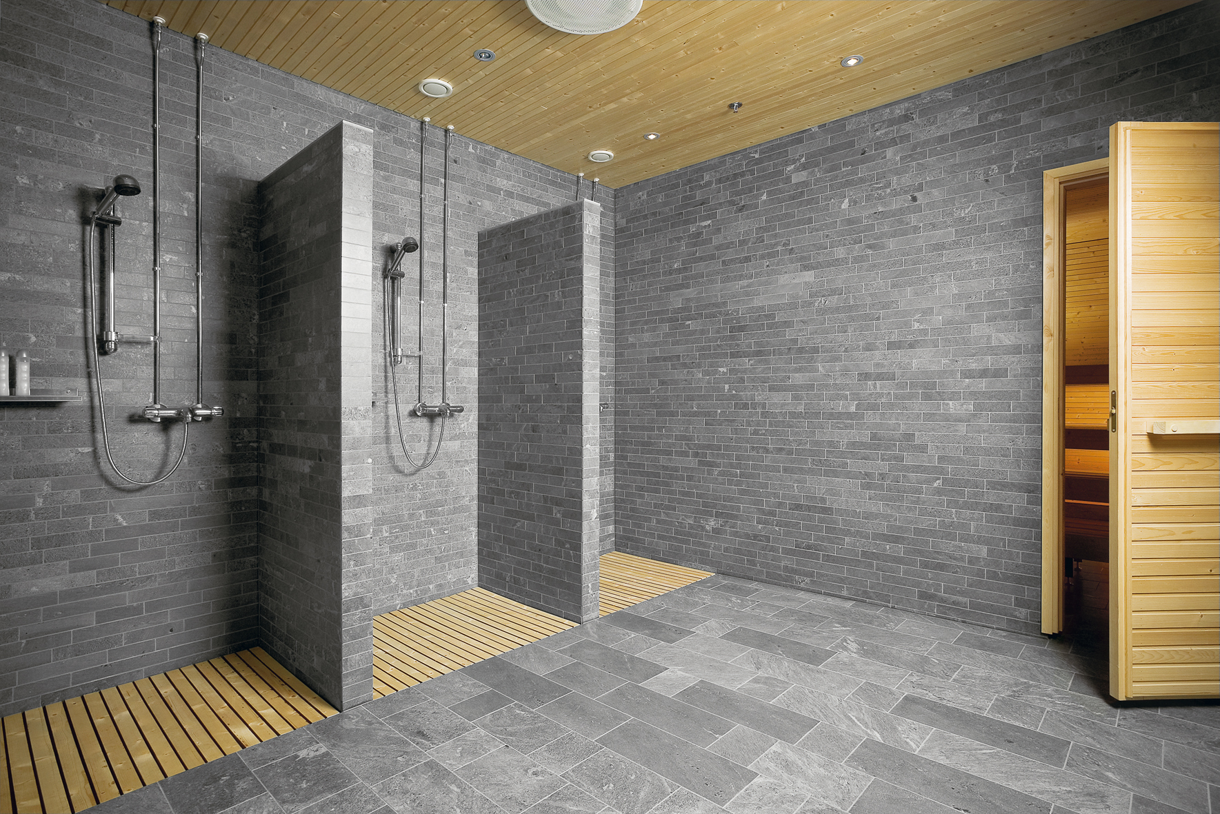 Soapstone in a bathroom